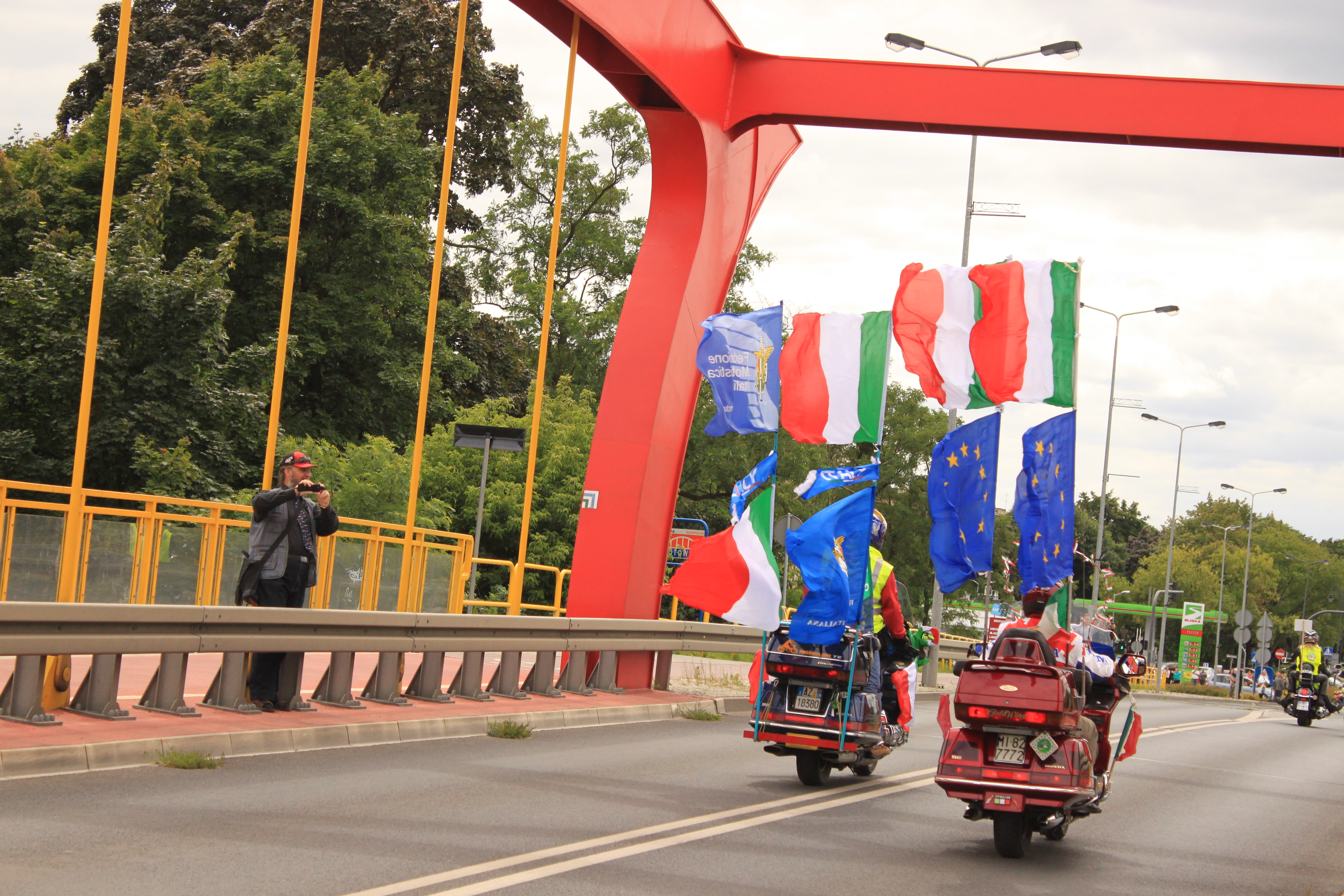 67. FIM Rally Bydgoszcz